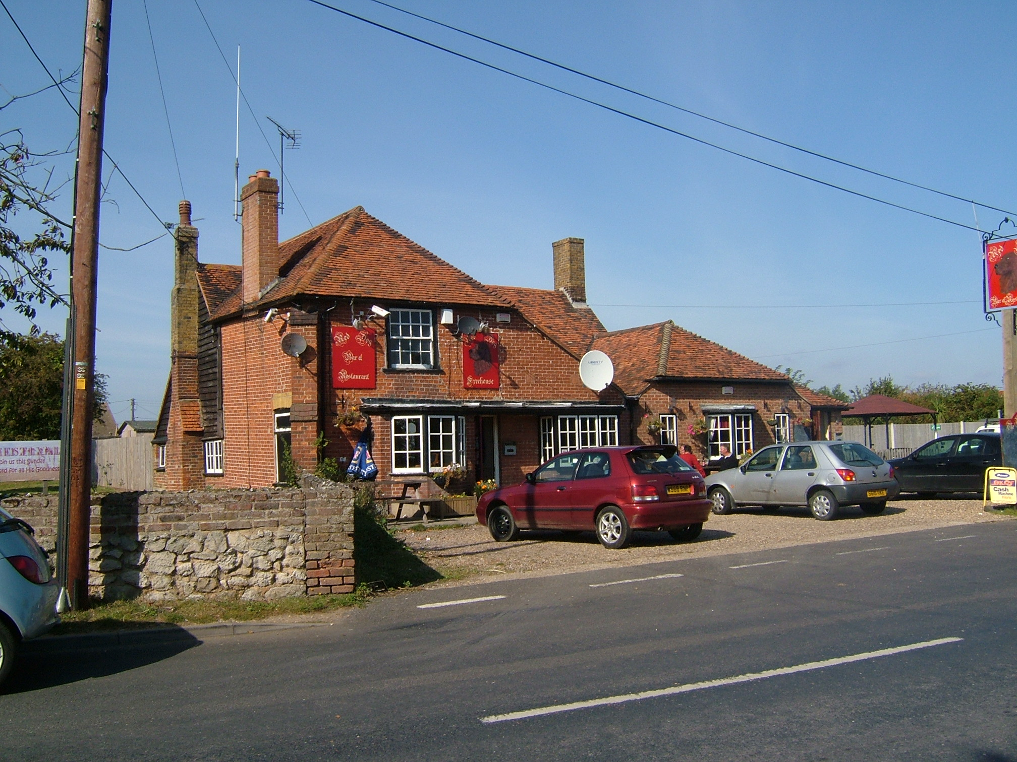 High Halstow is a village on the Hoo peninsula in Kent. Pub - The Red dog. - Google Maps - Google Earth